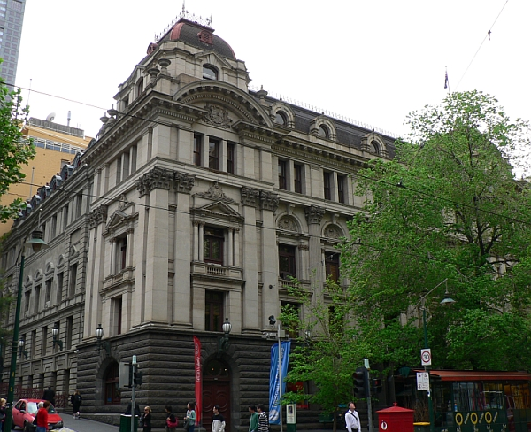 Town Hall Administration Buildings. Swanston Street, Melbourne